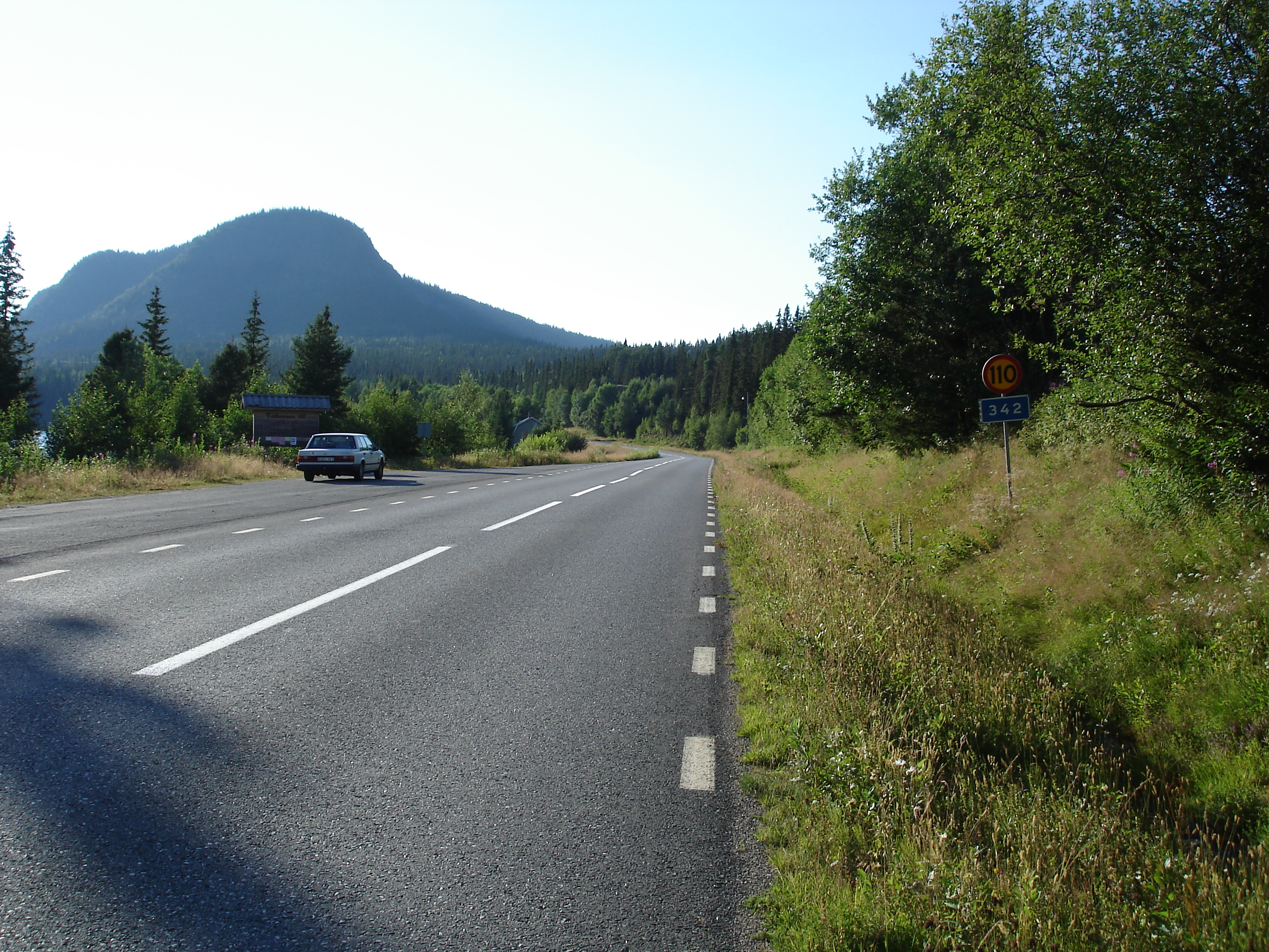 Swedish road 342 in Jämtland, Sweden.(Speed limit according to the sign 110 km/h). Photo: Sebbe 2006-08-04